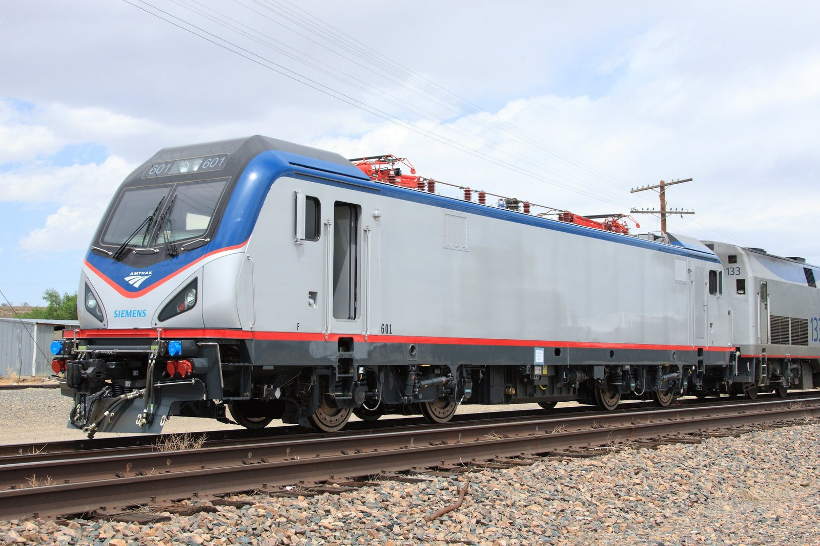 Amtrak 601, a Siemens ACS-64, awaits delivery to the Transportation Test Center at Avondale, CO, on 8 Jun 2013